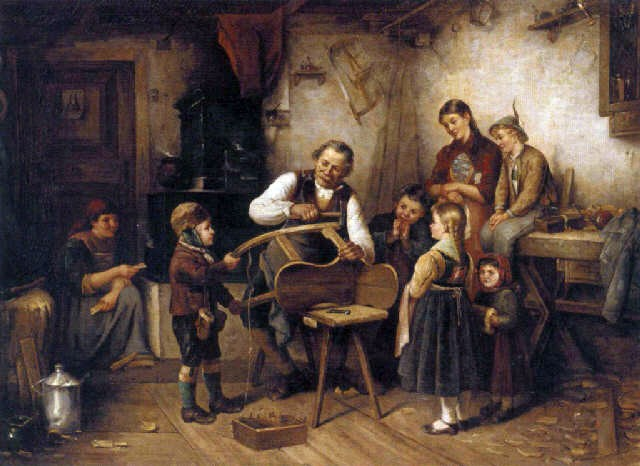 "The sleigh maker", Oil on Canvas, 83.8 x 113 cm.